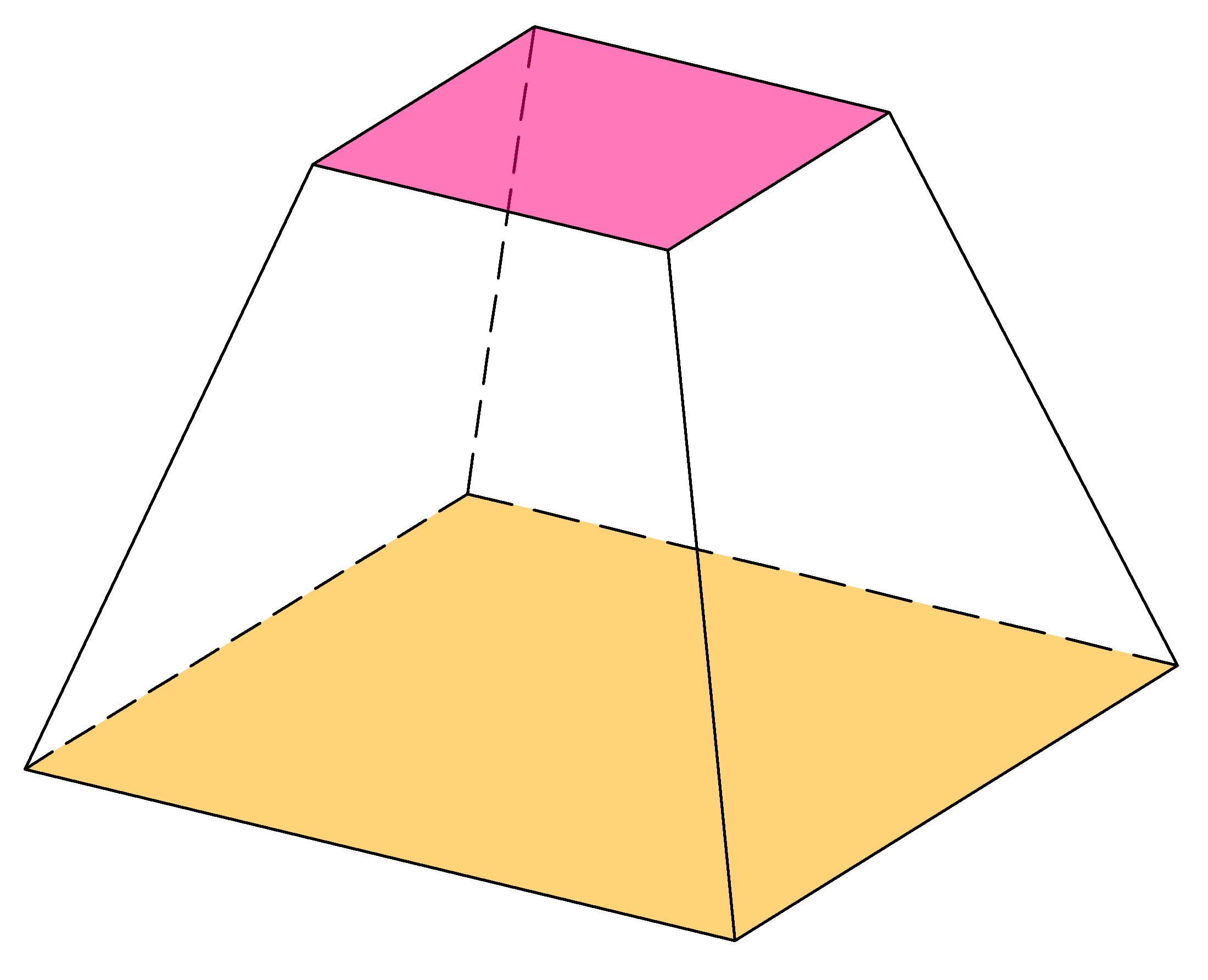 square frustum